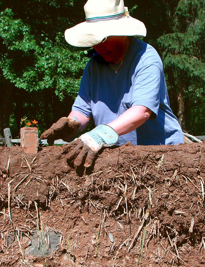 Woman constructs a wall out of Cob, a building material consisting of clay, sand, straw, water, and earth.